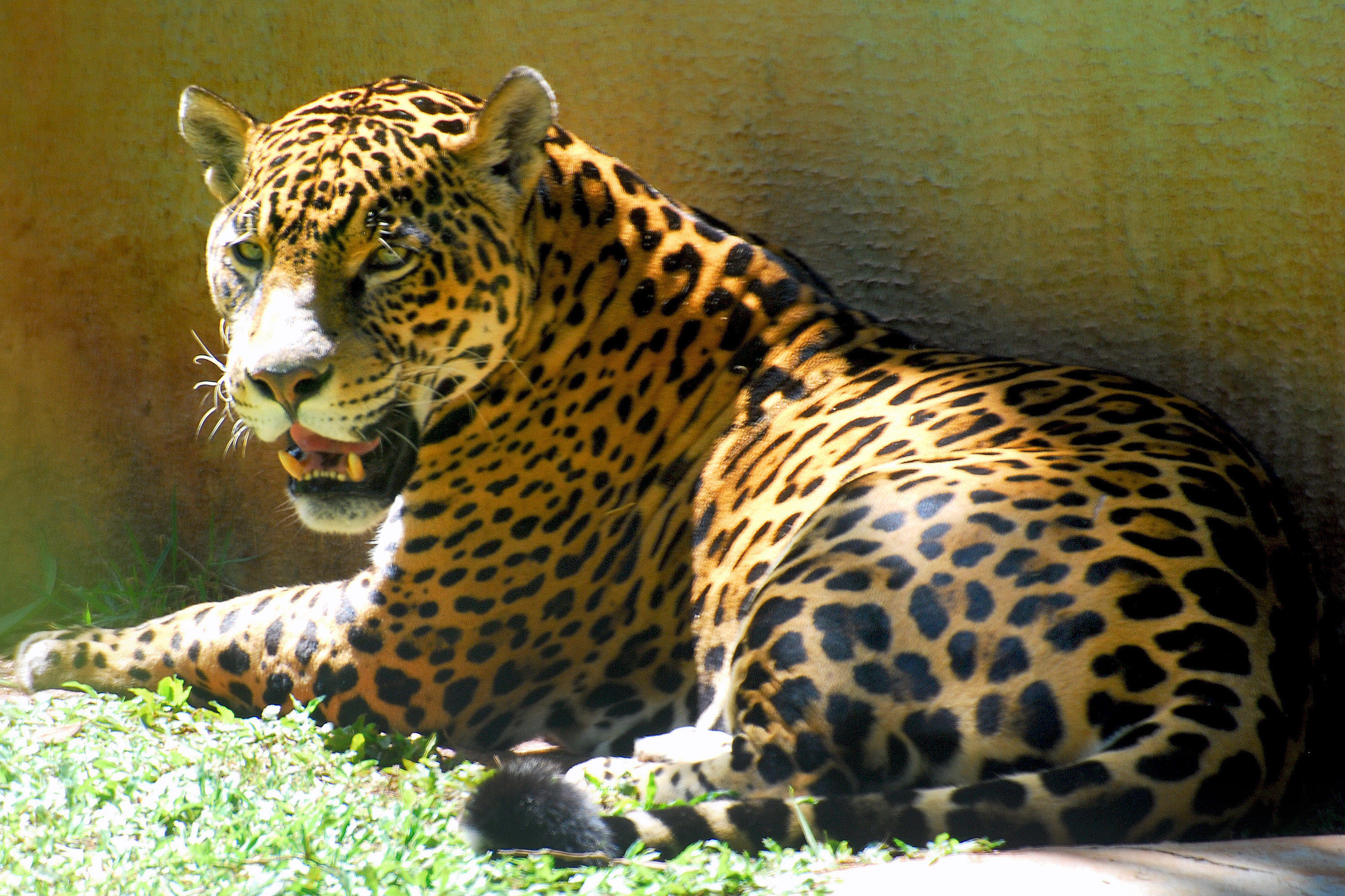 Jaguar at Sao Paulo Zoo, Brazil.